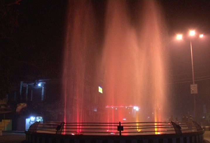 Musical Fountain in Golaghat